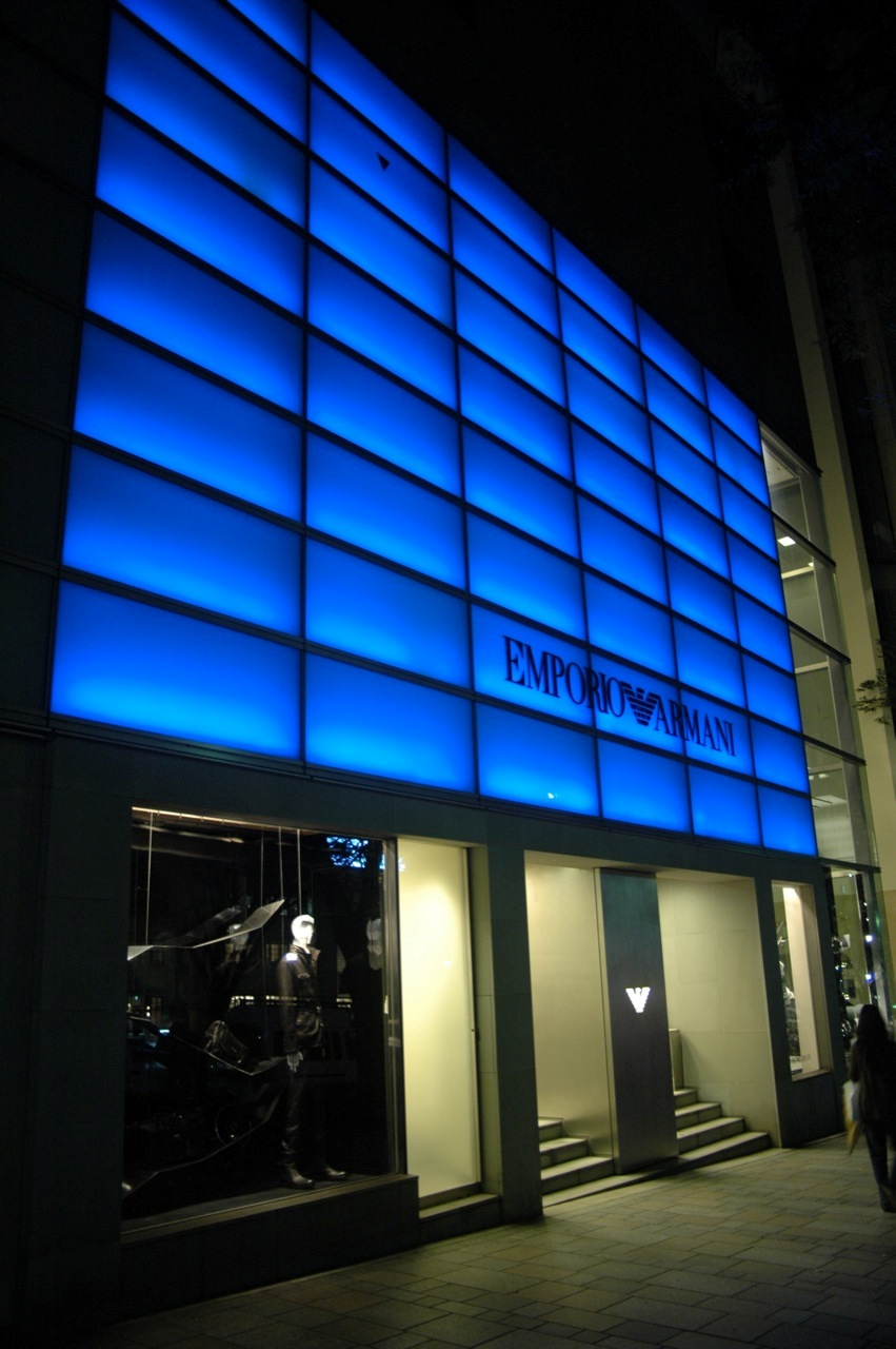 Emporio Armani store, Omotesandō, Tokyo